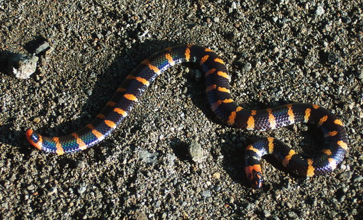 Cylindrophis ruffus from Darmaga, Bogor, Java, Indonesia